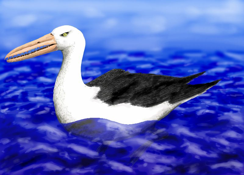 Osteodontornis orri, a seabird from the Late Miocene of the Pacific Ocean, digital work